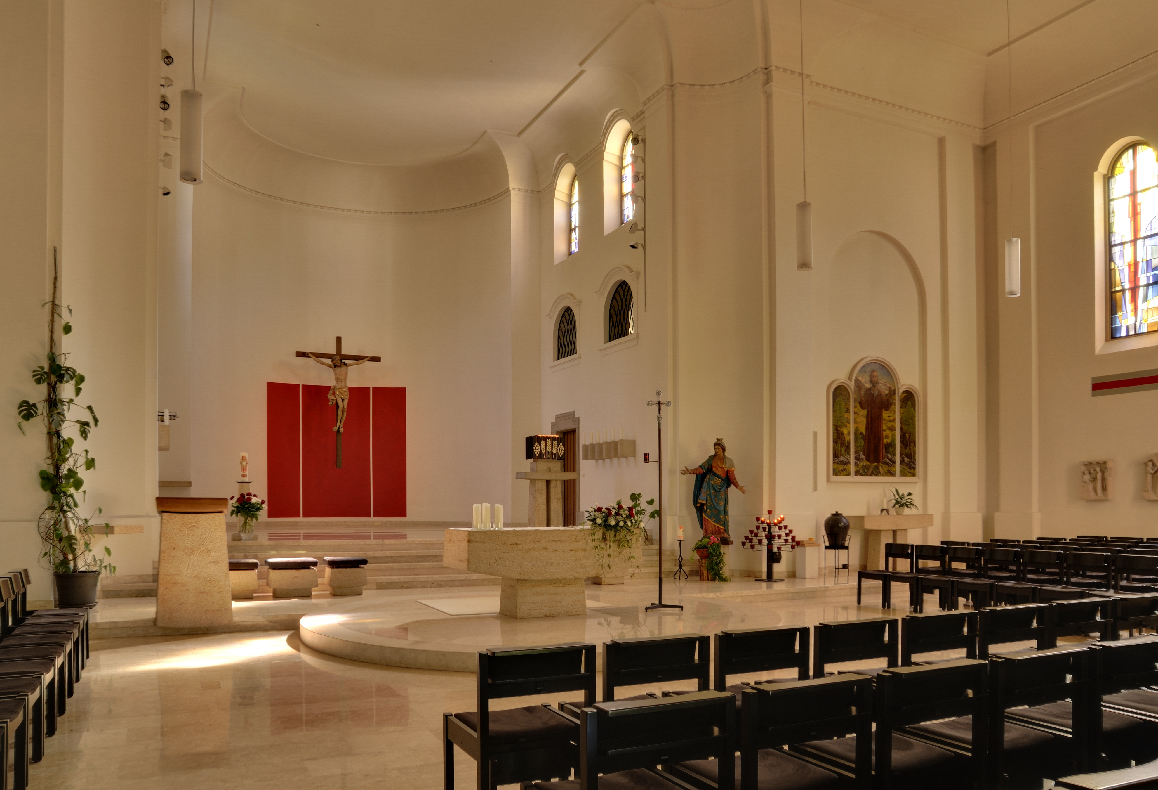 Zell im Wiesental: Church of the Assumption in Atzenbach